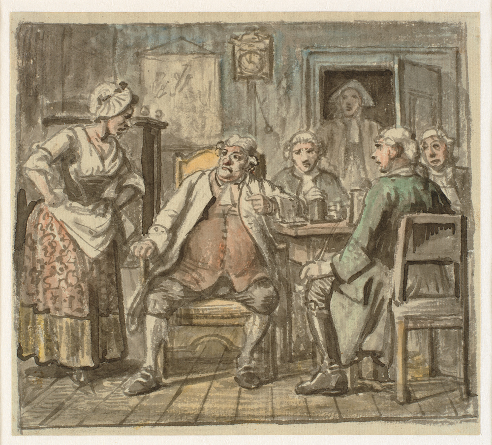 Wilhelm Marstrand (1810-1873), "Collegium politicum". (Den politiske kandestoeber), 1810-1873